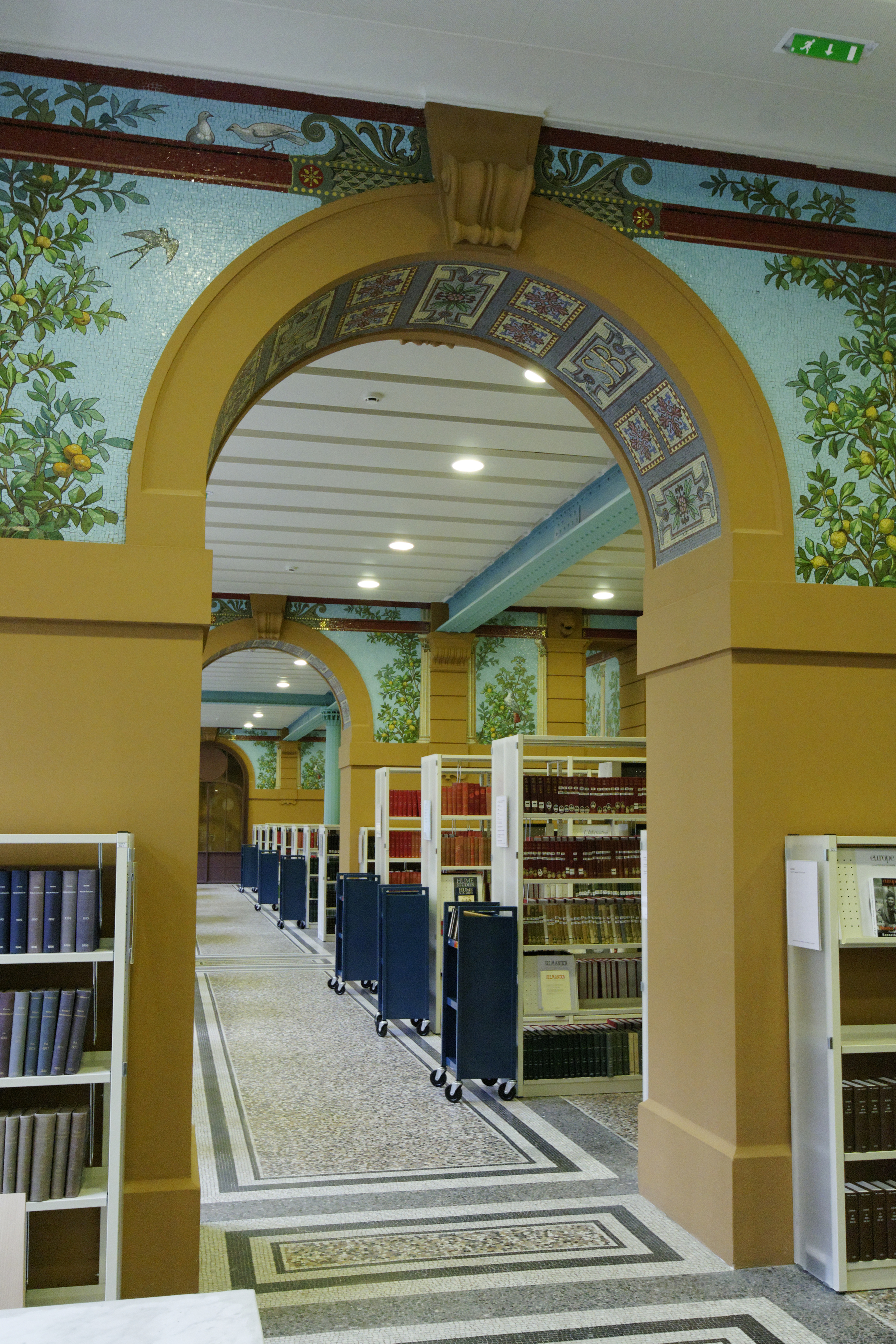 Dining hall room of the Collège Sainte-Barbe, Paris. Mosaics by Giandomenico Facchina (1826-1904).